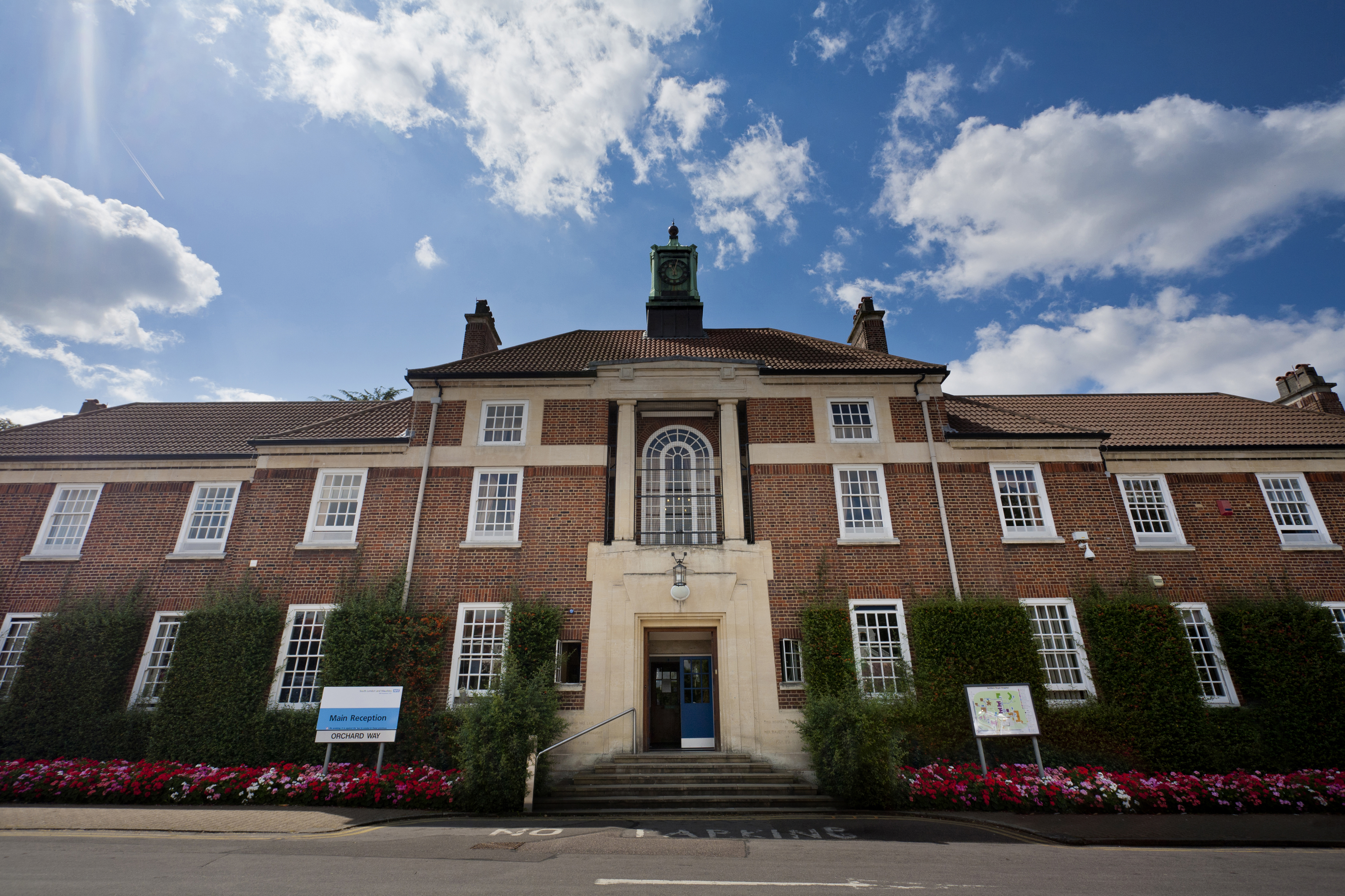 Bethlem Royal Hospital main building view 1